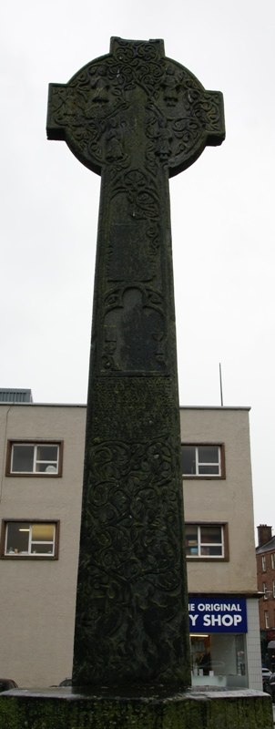 Campbeltown Cross, Campbeltown, Scotland